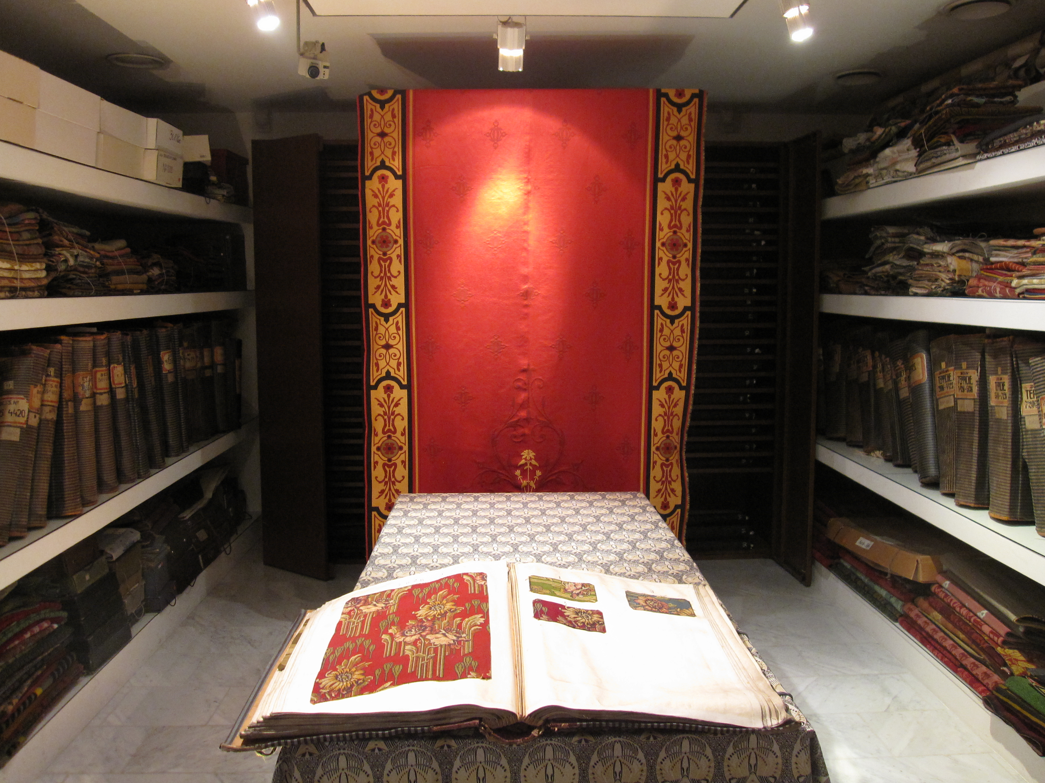 Archive of Backhausen company, holding many samples of the Wiener Werkstätte.